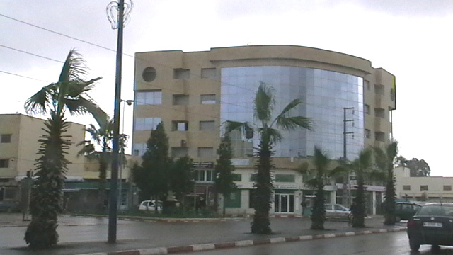 Modern building at Sidi Bennour (Doukkala) Walon: On bildigne modiene a Sidi Bennour (Douccala)